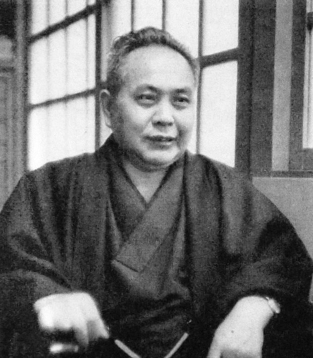 Udaru Oshita